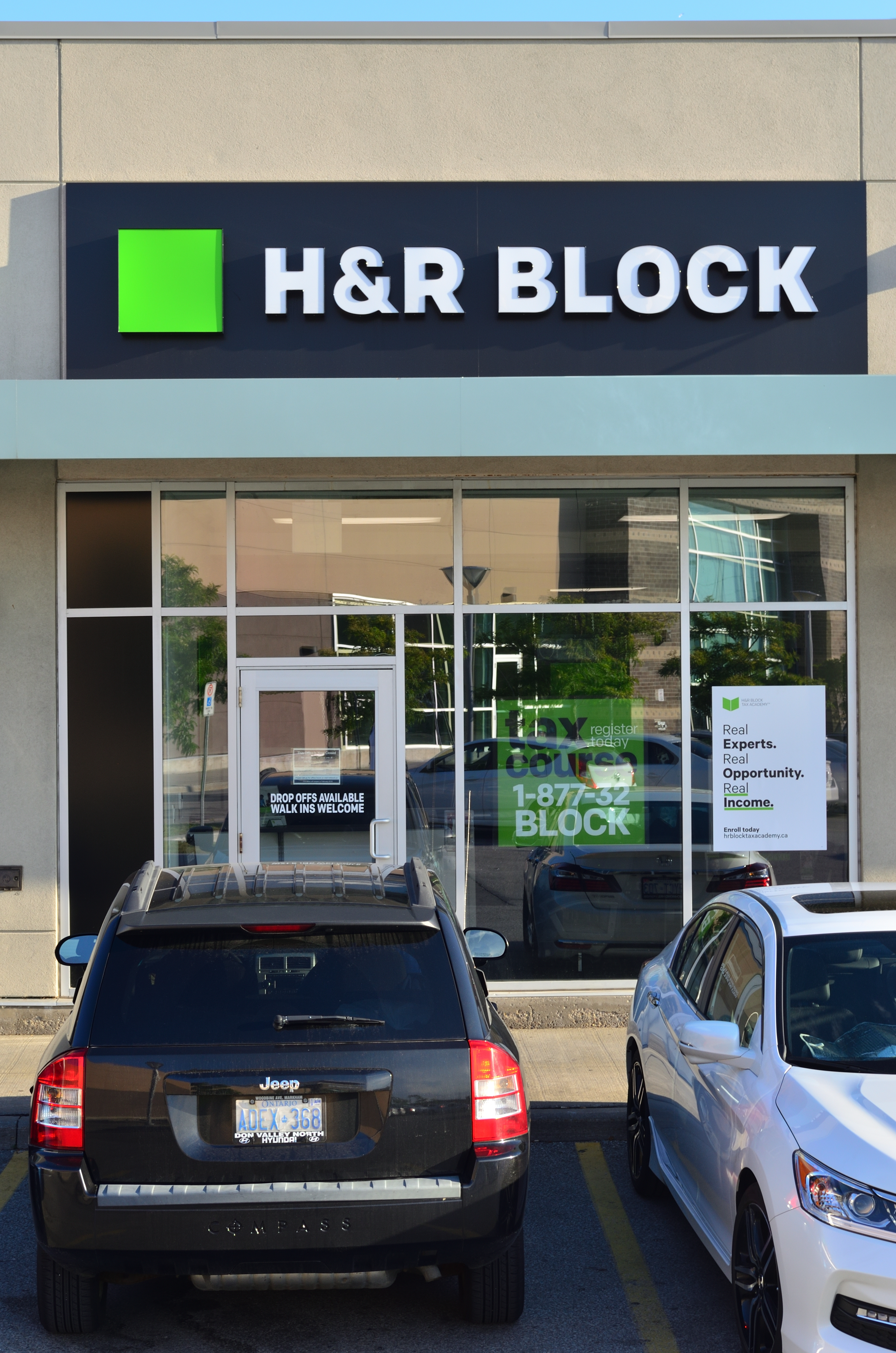 H&R Block in Markham, Ontario